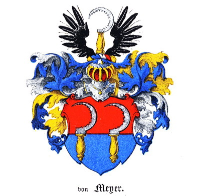 Coat of arms of von Meyer family